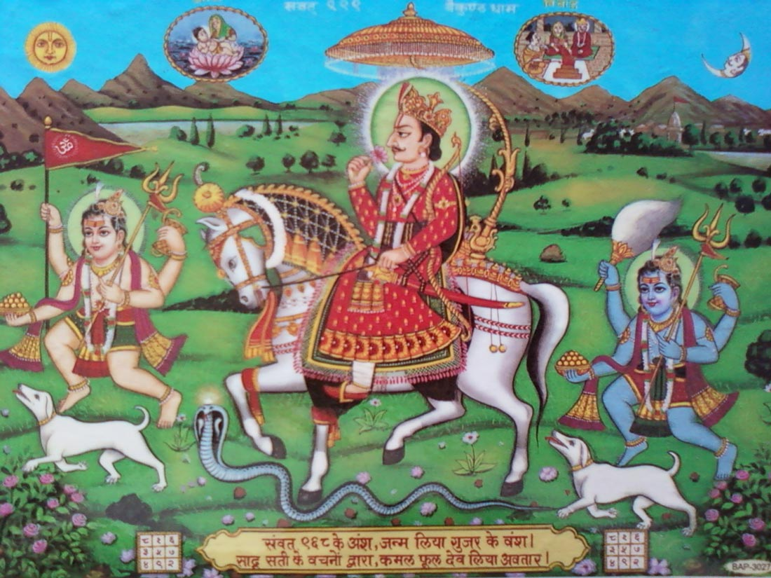 Sri Devnarayan is worshiped as folk deity.According to traditions, he incarnated in 968 AD as son of Sri Sawai Bhoj and Saadu maata Gurjari.There are many shrines of Sri devnarayan including Asind , Jodhpuriya, Demali etc.